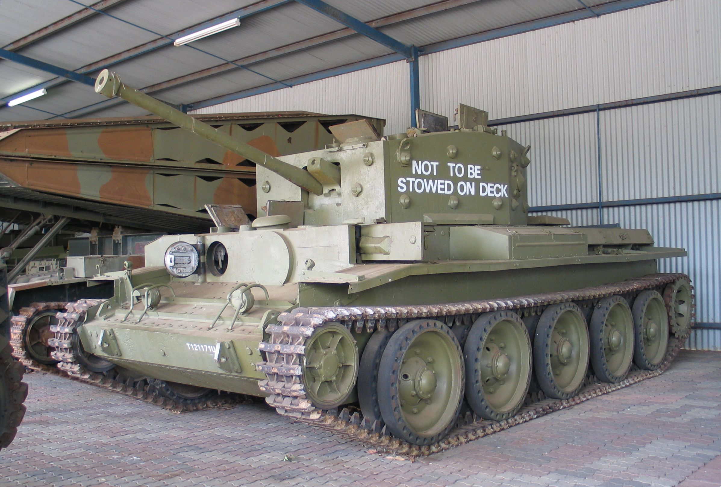 Cruiser Tank Mk VIII Cromwell Mk I in Royal Australian Armoured Corps Tank Museum, Puckapunyal, Australia. This vehicle is the only Cromwell tank sent to Australia.